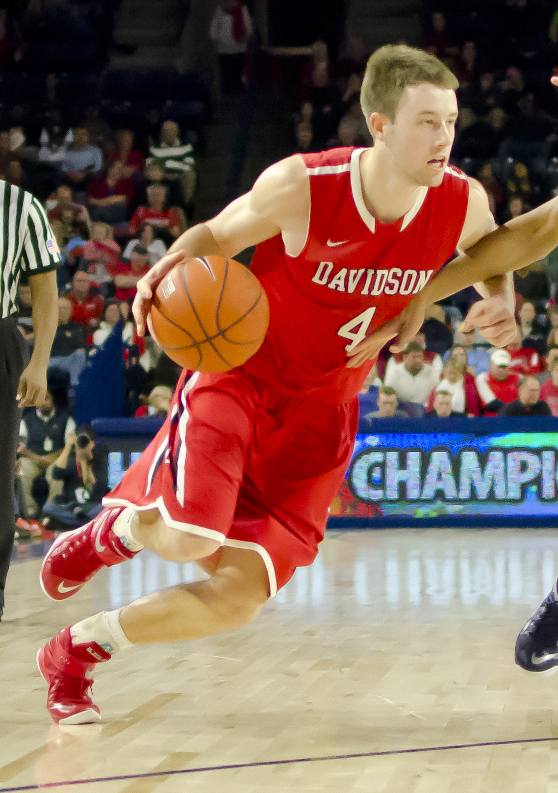 Tyler Kalinoski of Davidson